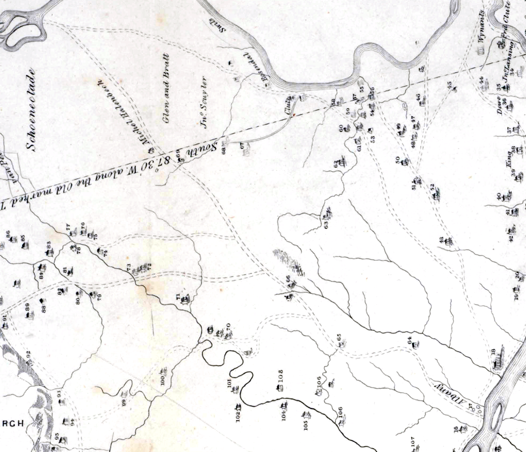 A crop of the 1767 map of the Manor of Rensselaerswyck made at the request of Stephen van Rensselaer III showing showing the King's Highway through the Albany Pine Bush